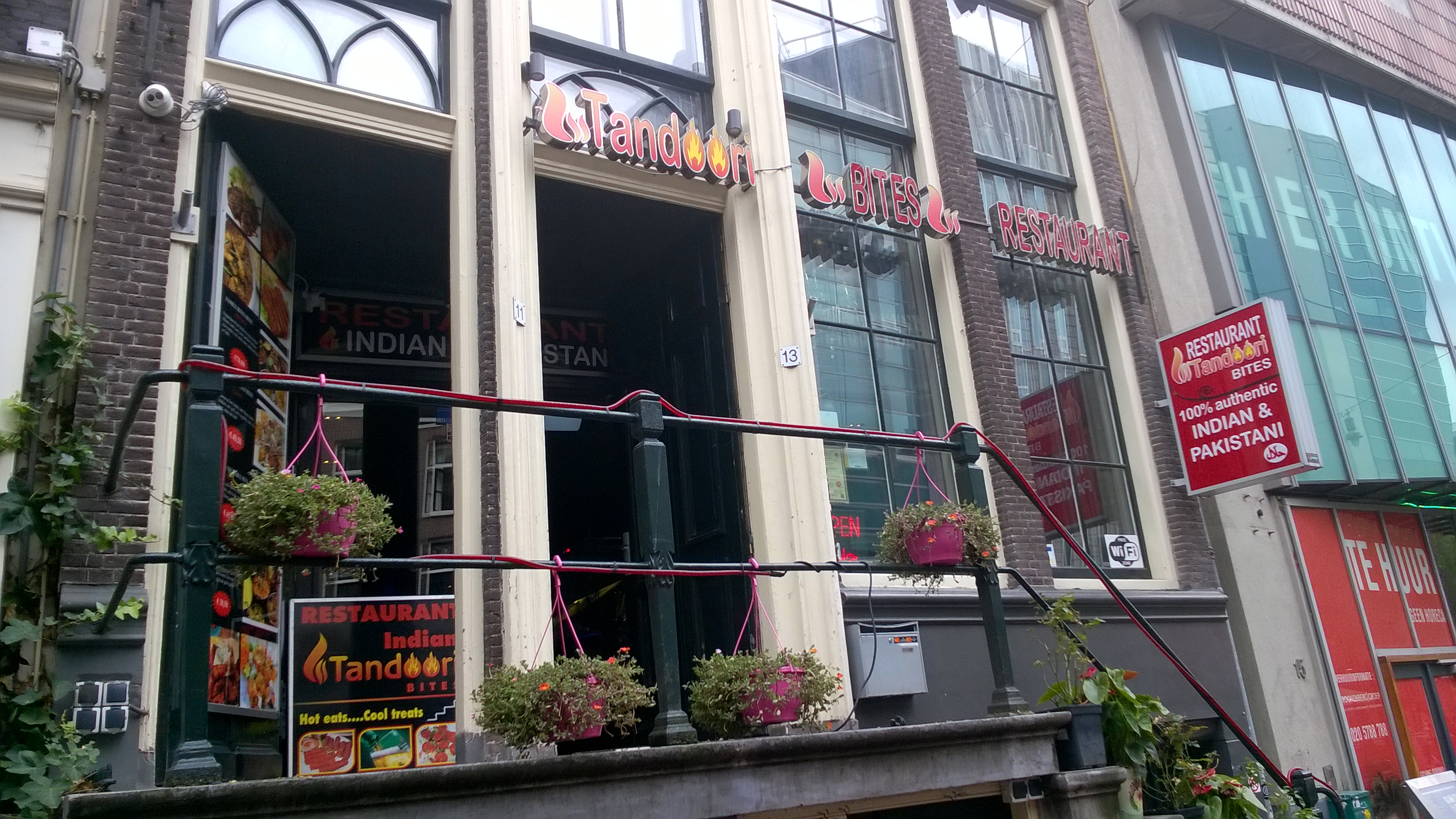 A local Indian & Pakistani restaurant 🍴 in the city of Amsterdam.